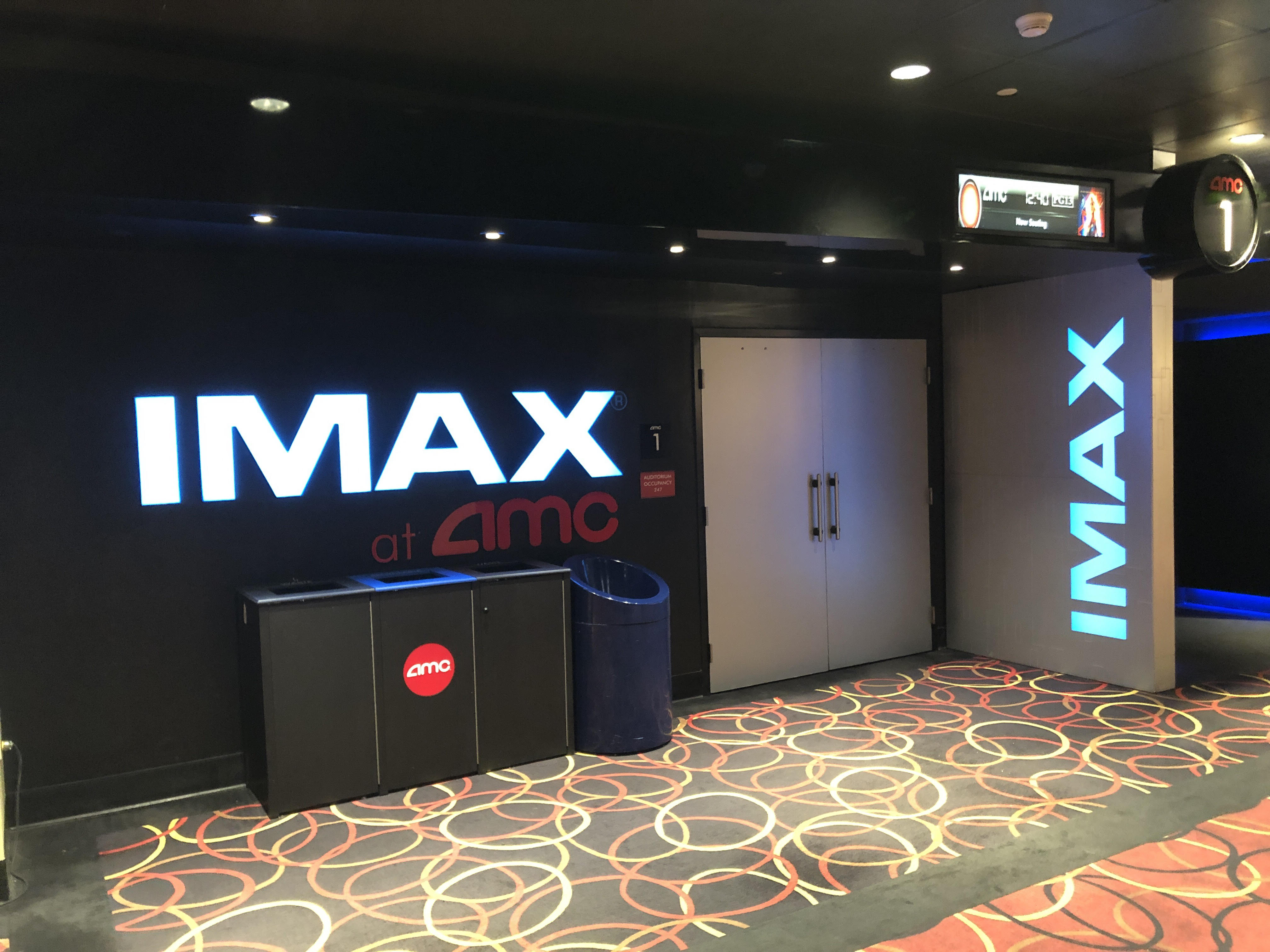 This is a typically entrance to an IMAX theater. This one is located at the AMC Barton Creek Square 14 in Austin, Texas.